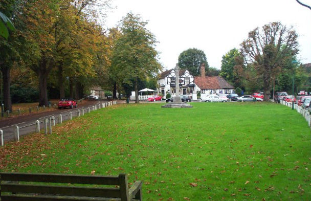 The Green at Letchmore Heath, Hertfordshire